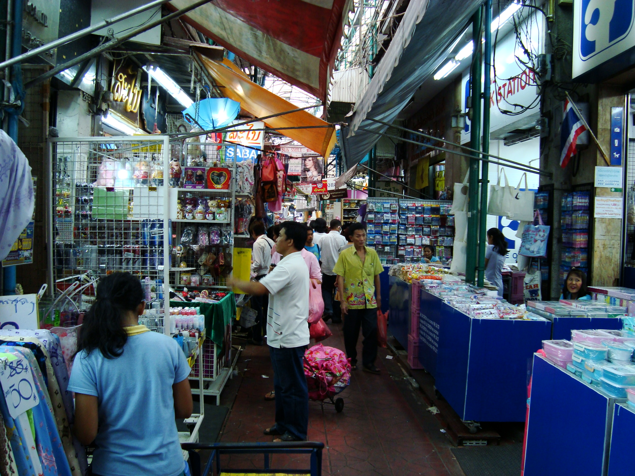 Sampeng Lane in Samphanthawong District, Bangkok, Thailand.